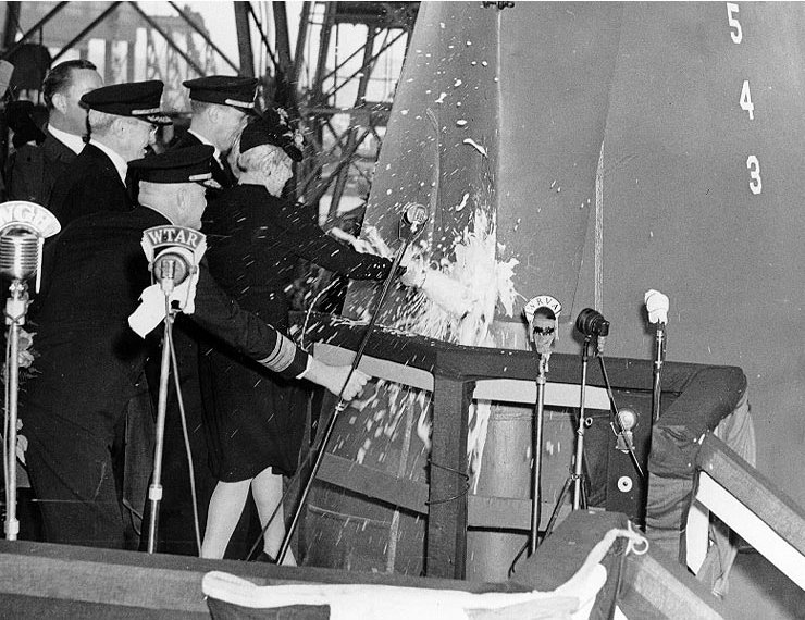 The U.S. Navy aircraft carrier USS Shangri-La (CV-38) is christened by Mrs. Josephine "Joe" E. Doolittle, wife of (then) U.S. Army Air Forces Major General James H. Doolittle, during launching ceremonies at the Norfolk Navy Yard, Virginia (USA), 24 February 1944. Rear Admiral Felix X. Gygax, the Navy Yard Commandant, is in the foreground, holding a microphone close to the sponsor's champagne bottle as it smashes into the new carrier's bow. The aircraft carrier was named Shangri-La, because in April 1942 President Franklin D. Roosevelt said that the famous "Doolittle Raid" on Tokyo was flown from Shangri-La, a fictional paradise from the popular novel "Lost Horizon" by James Hilton. In reality, Lt.Col. Doolittle had led sixteen USAAF Martin B-25B Mitchell bombers to bomb targets in Japan after taking off from the aircraft carrier USS Hornet (CV-8).